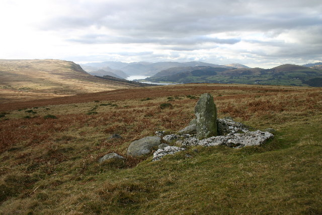 Boundary Stone, Heughscar Hill. Looking towards Ullswater. It is inscribed, but not readable. It is located on the gridline, so may fall into NY4823